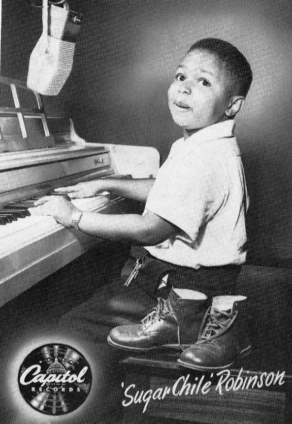 Publicity photo of Capitol Records artist Sugar Chile Robinson.